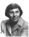 Ella T. Grasso (1919-1981) — the first woman elected Governor of Connecticut, and first female to be elected governor of a U.S. state "in her own right" (not married to and surviving a former governor). A Congressional representative from the state, and Presidential Medal of Freedom recipient. Library of Congress Congressional Portrait Collection.